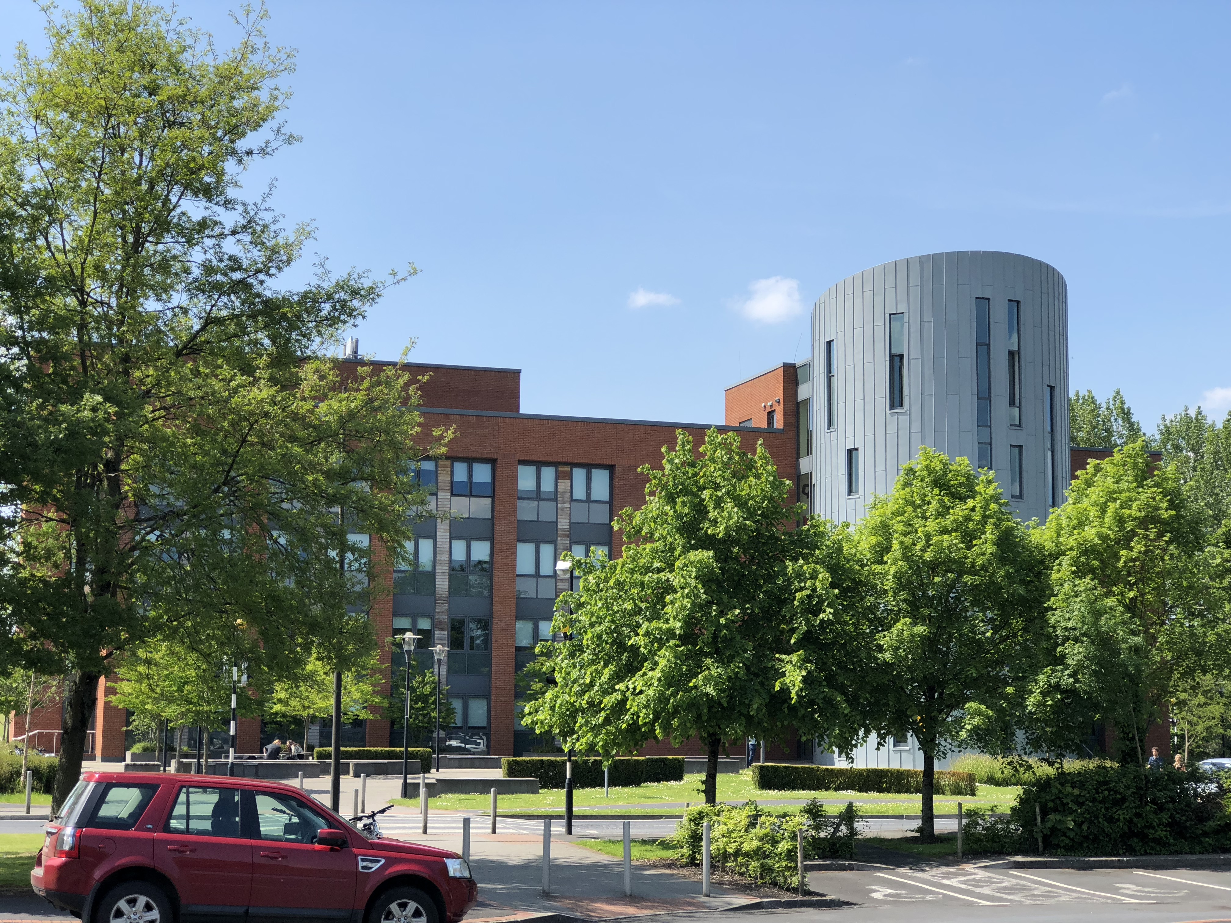 The Tierney Building at the University of Limerick, Ireland.